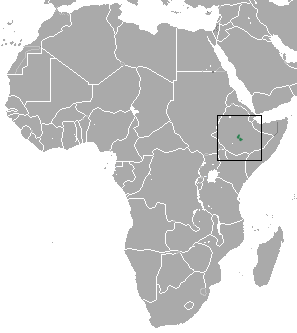 Bale Shrew (Crocidura bottegoides) range